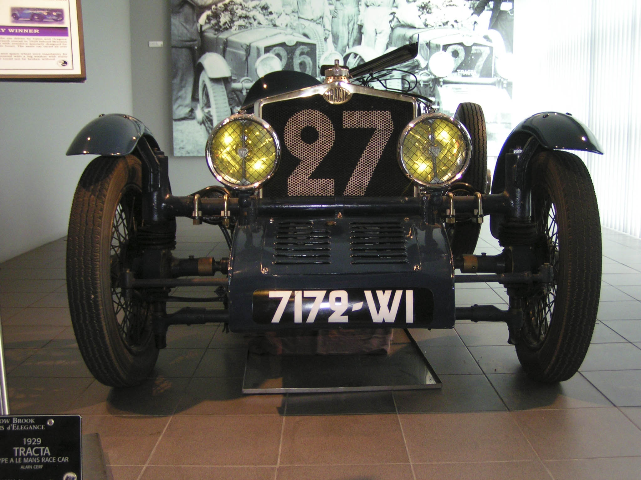 This car placed first in its class and amazingly with only 995cc seventh overall in the 1929 Le Mans race. This car is original with the exception of a new coat of paint.